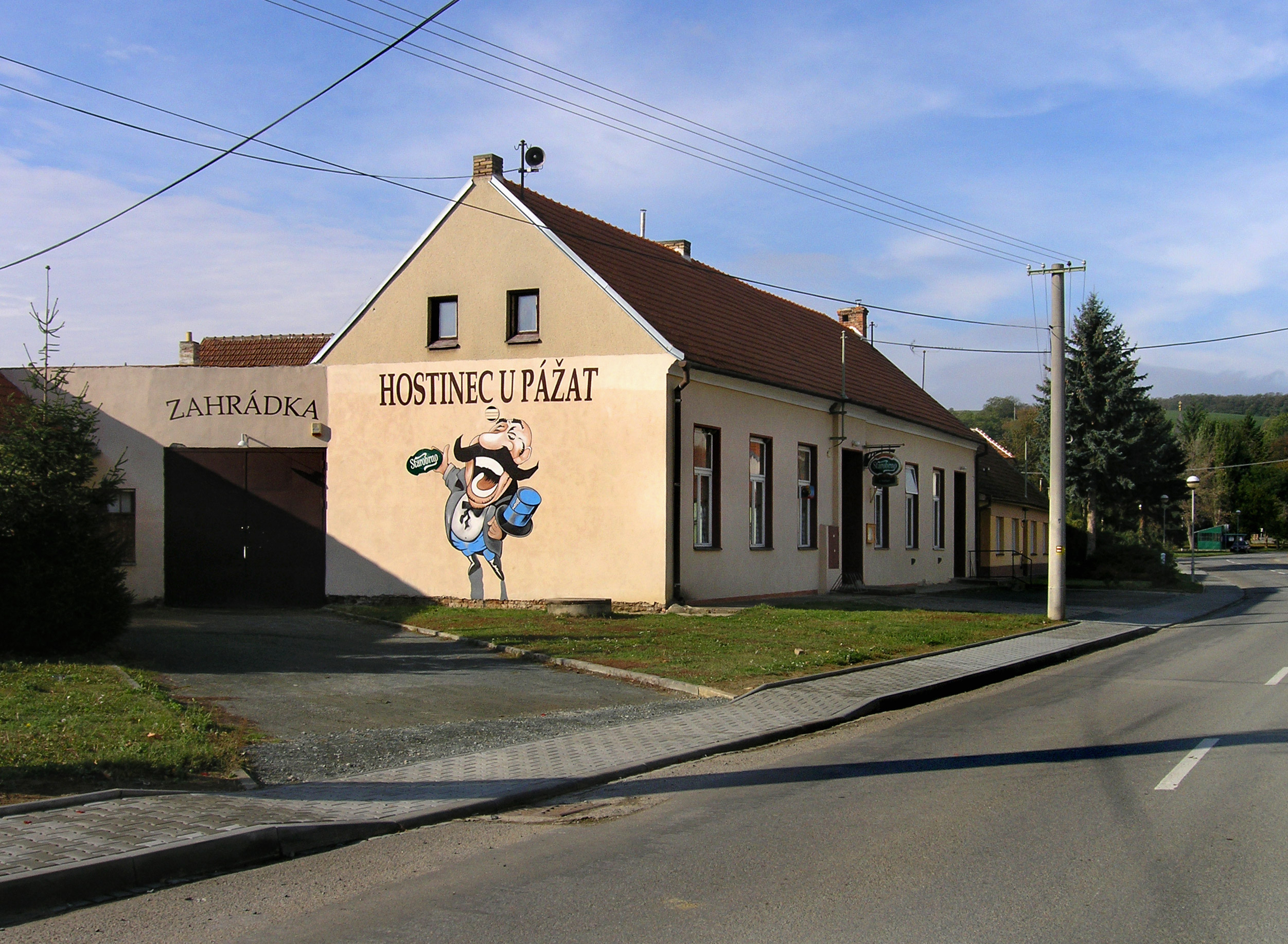 Restaurant in Diváky, Czech Republic